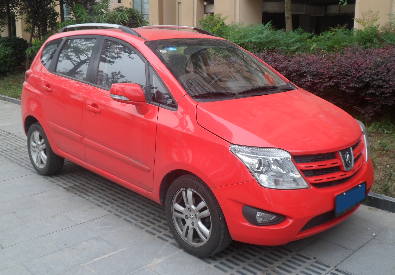 Chang'an CX20 photographed in Chongqing, China.